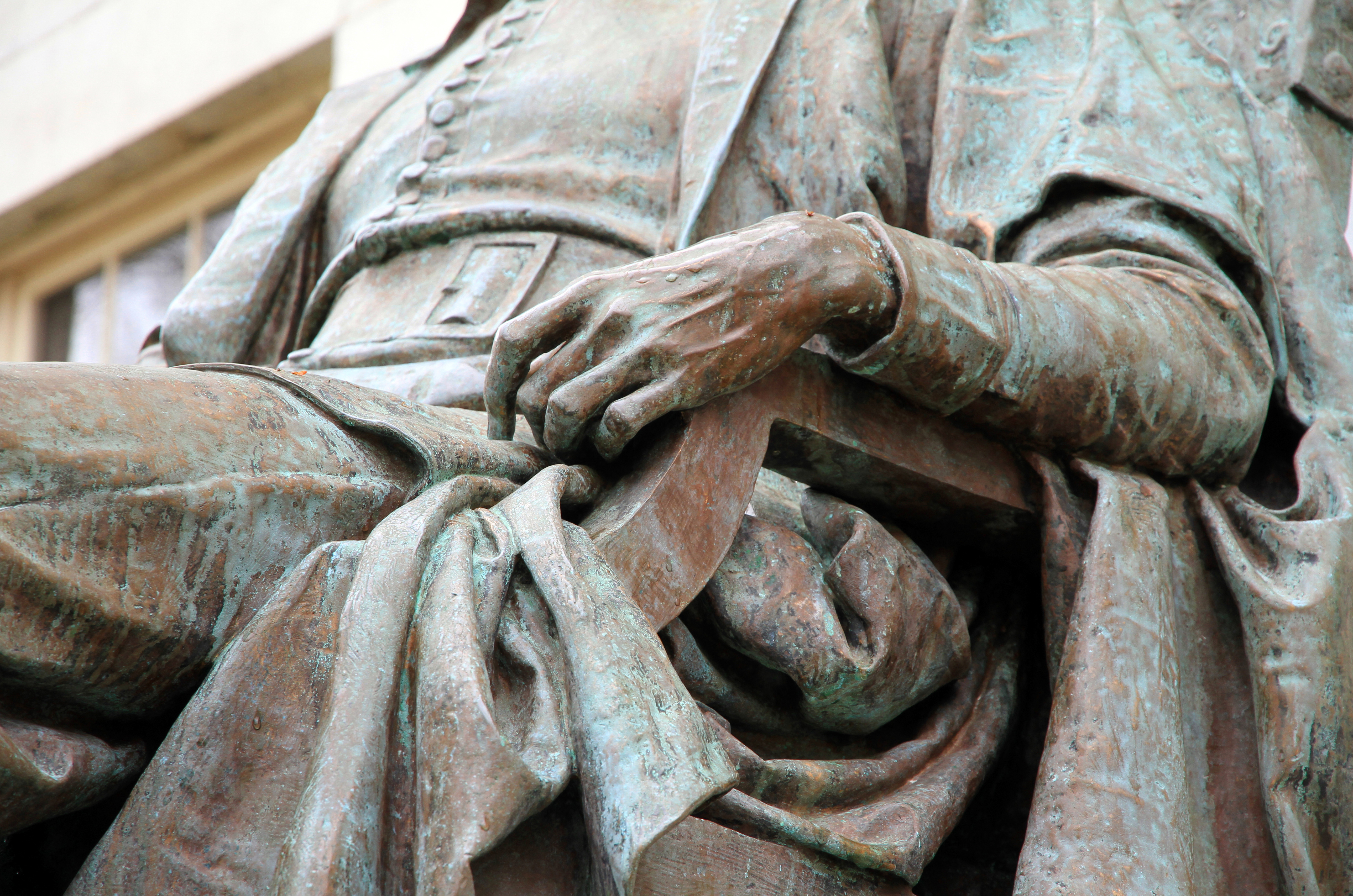 John Harvard Statue in Harvard Yard